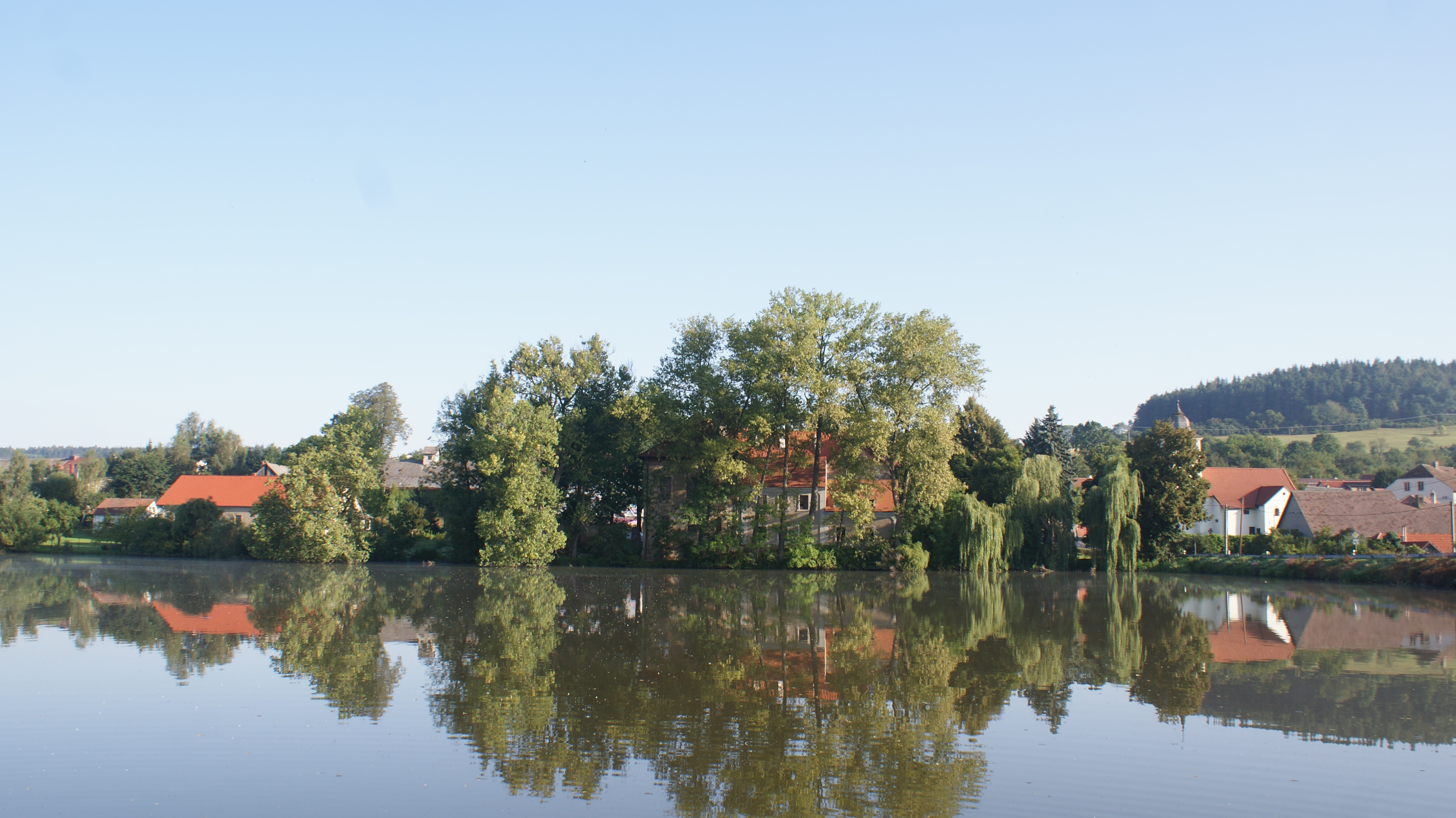 Fortress (castle) Popovice. Church of Saint James the Greater (Popovice)